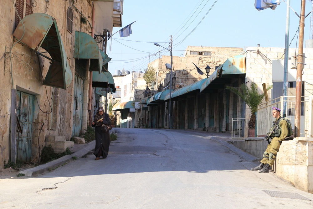 A soldier stationed at a checkpoint on al-Shuhada Street. The checkpoint serves to separate the upper part of the street – where Israeli security forces permit Palestinians to travel on foot, but not by car and not to open stores – and the lower section which is prohibited even to Palestinian pedestrians. Photo published in November 2013; according to the metadata, it is taken in March 2012.